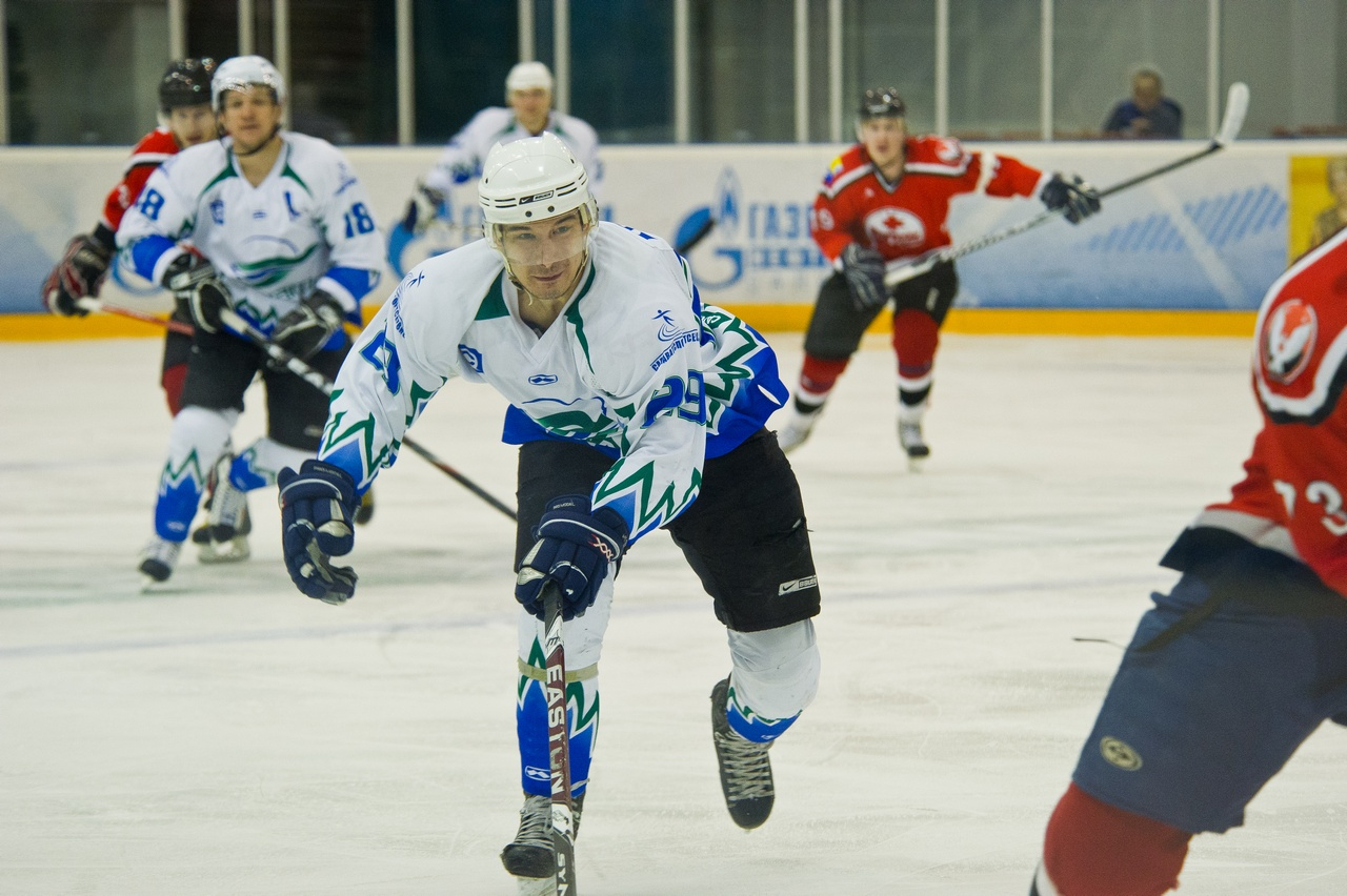 команда Юрматы